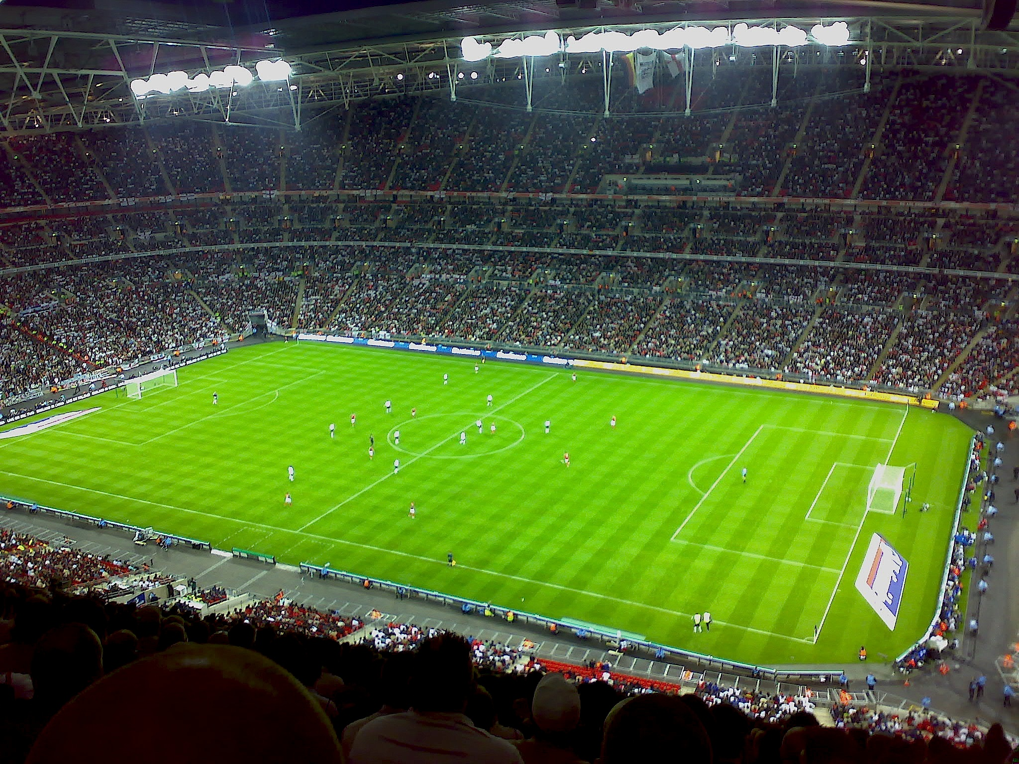 Taken during the England v Germany friendly at Wembley Stadium on 22/08/2007 by myself.